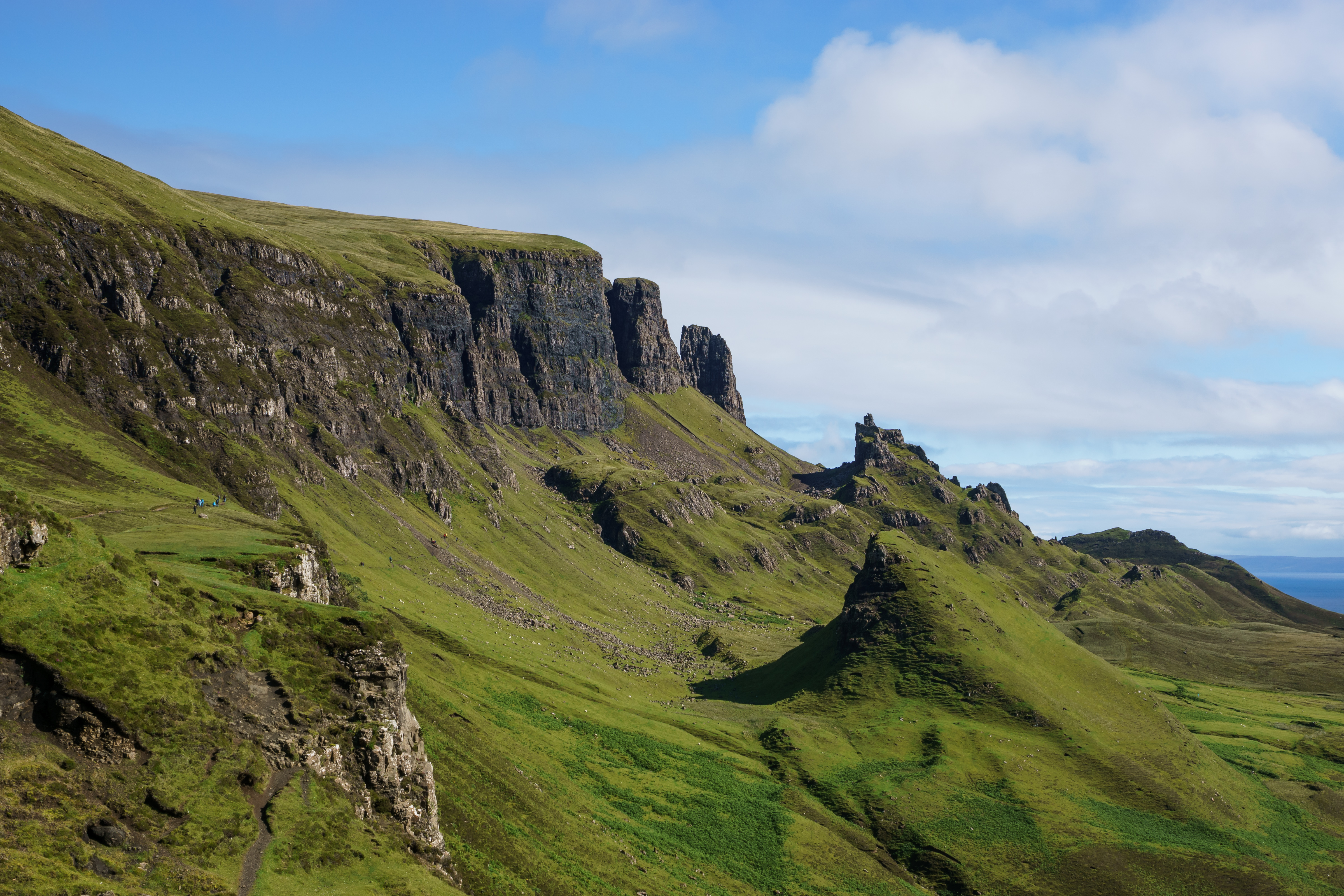 Looking North over the Quiraing on the Isle of Skye.